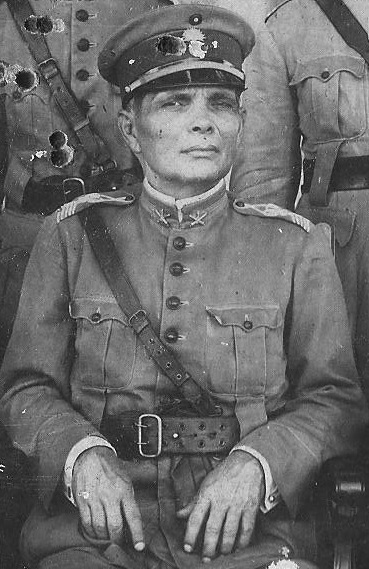 Marshal Antônio Henrique Cardim